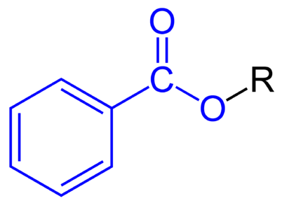 Benzoyloxy functional group